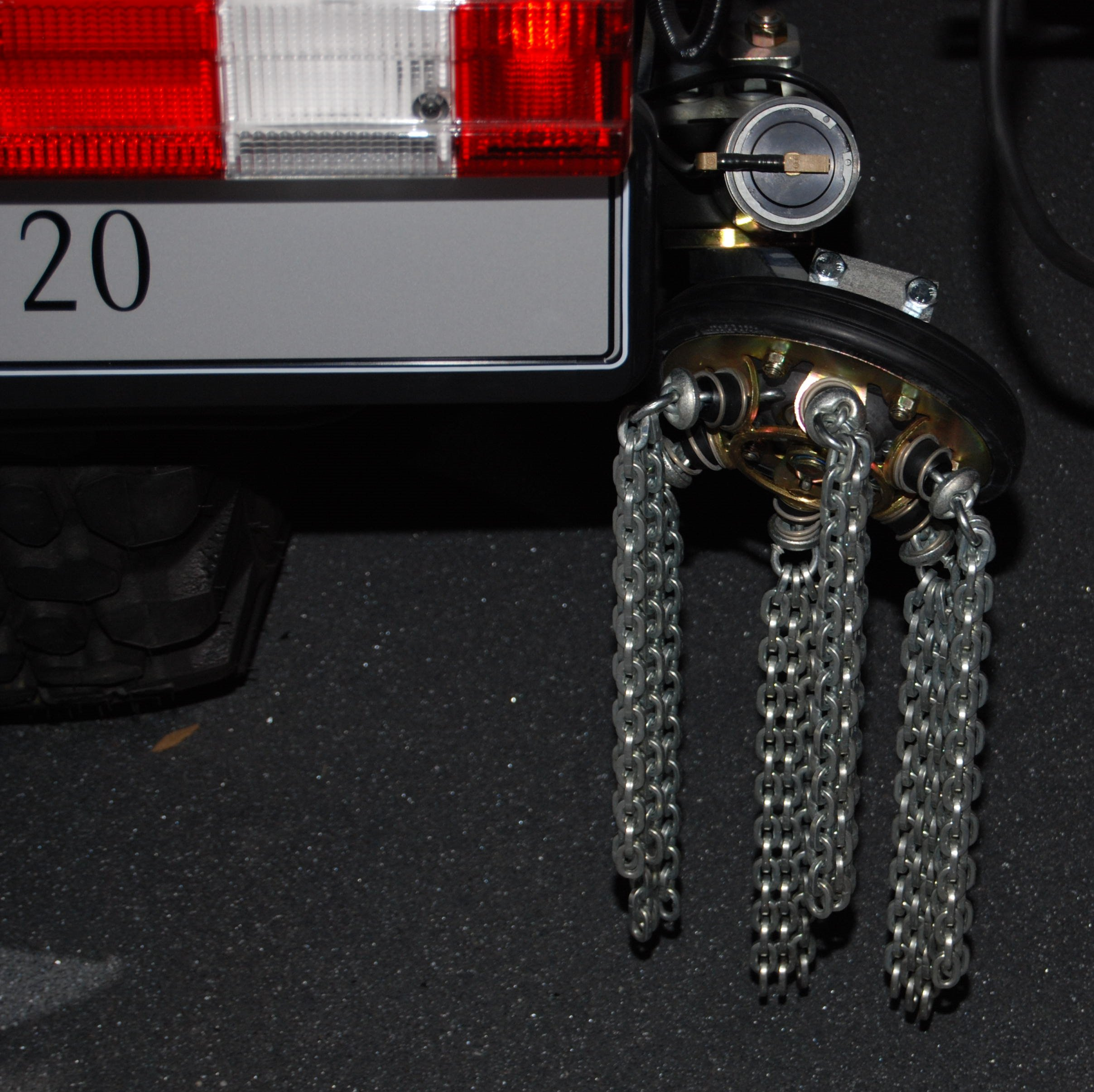 Automatic snow chains on a Mercedes Benz Unimog truck. Photographed on IAA 2008.